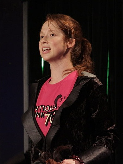 Ellie Kemper performing in her show "Feeling Sad/Mad With Ellie Kemper" in 2008 as part of the Upright Citizens Brigade Theatre in New York City